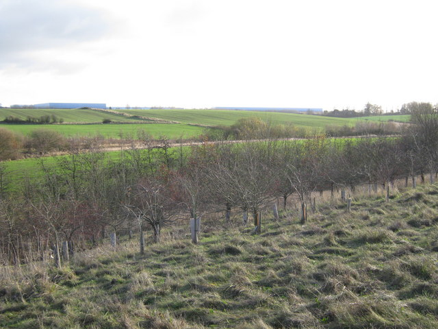 Bittesby, site of medieval village Viewed from former railway embankment north of A5 looking across fields towards outskirts of Magna Park. Foreground shows large areas of new trees being grown (as woods). Immediately above new trees ahead is site of Bittesby village.